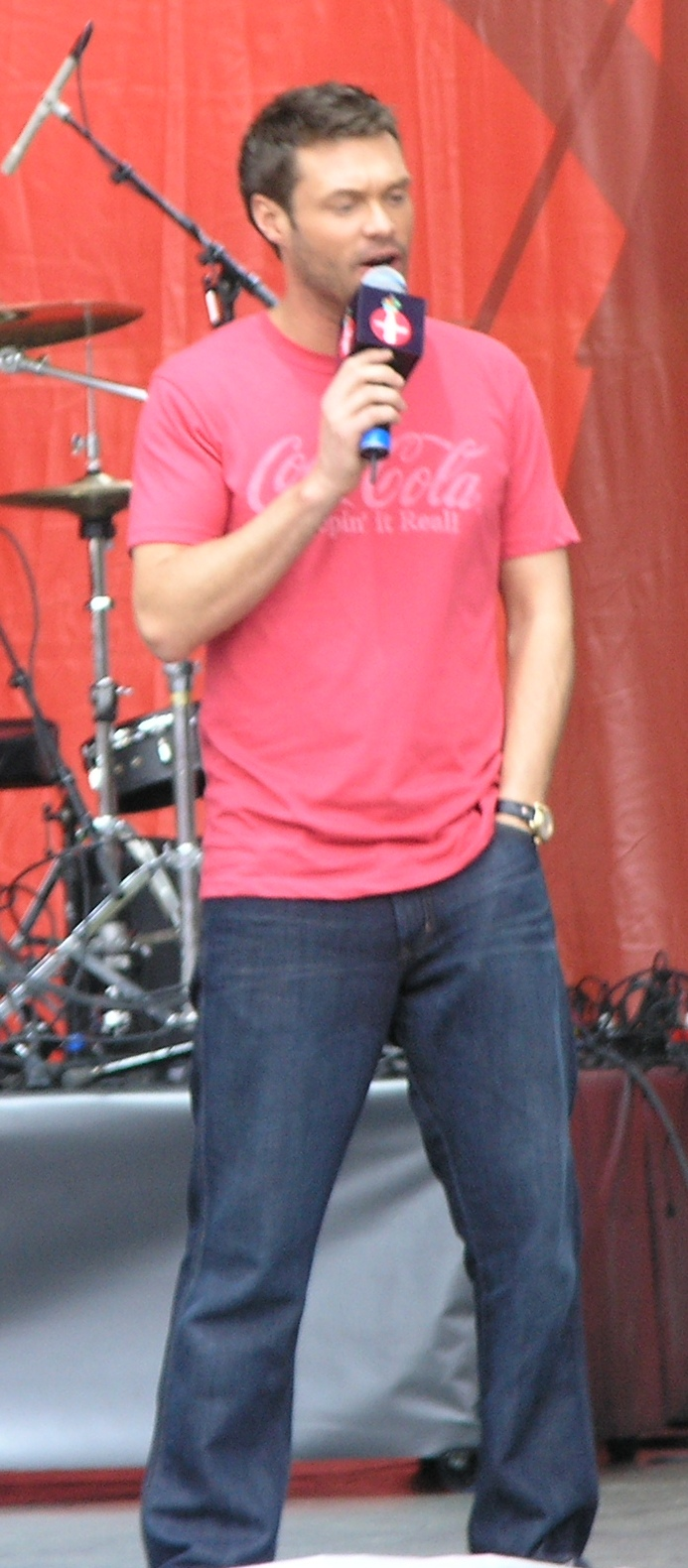 Taken during MyCokeFest at Centennial Olympic Stadium in Atlanta